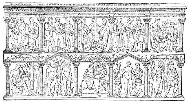 Sarcophagus of Junius Bassus. 359 AD.